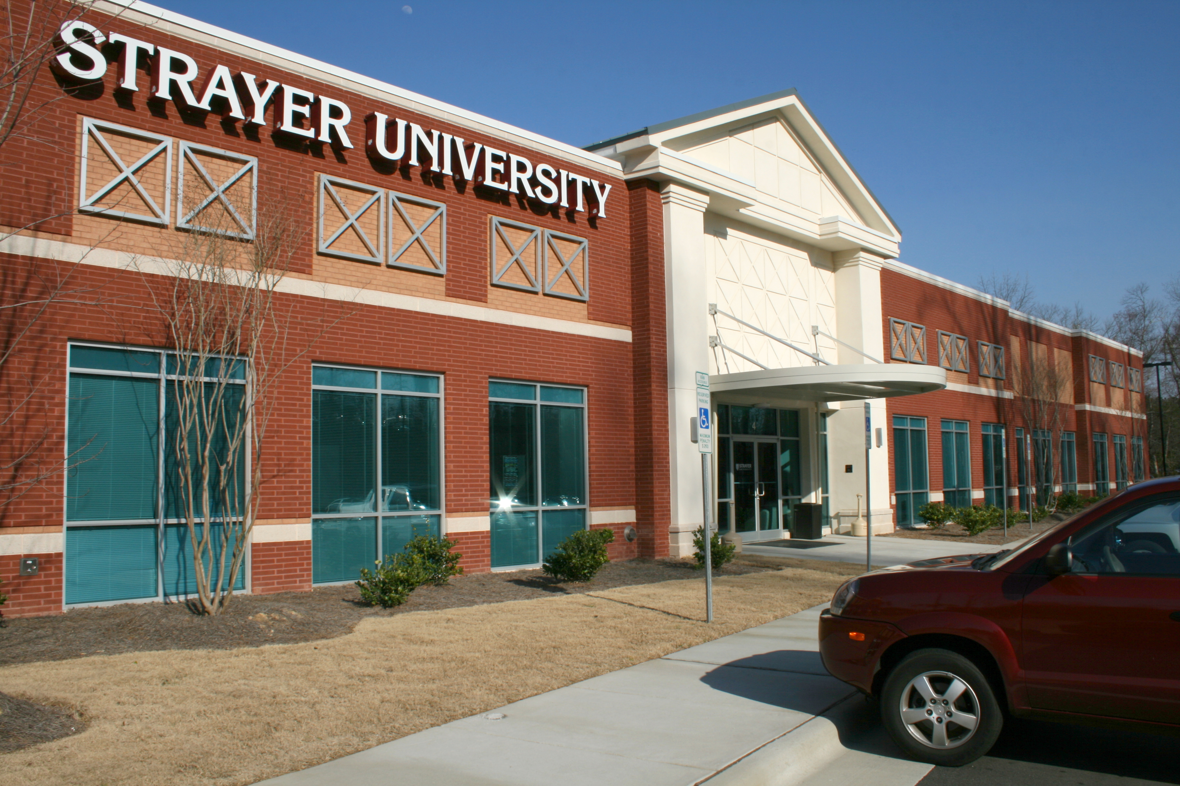 Strayer University at 4 Copley Parkway in Morrisville, North Carolina.